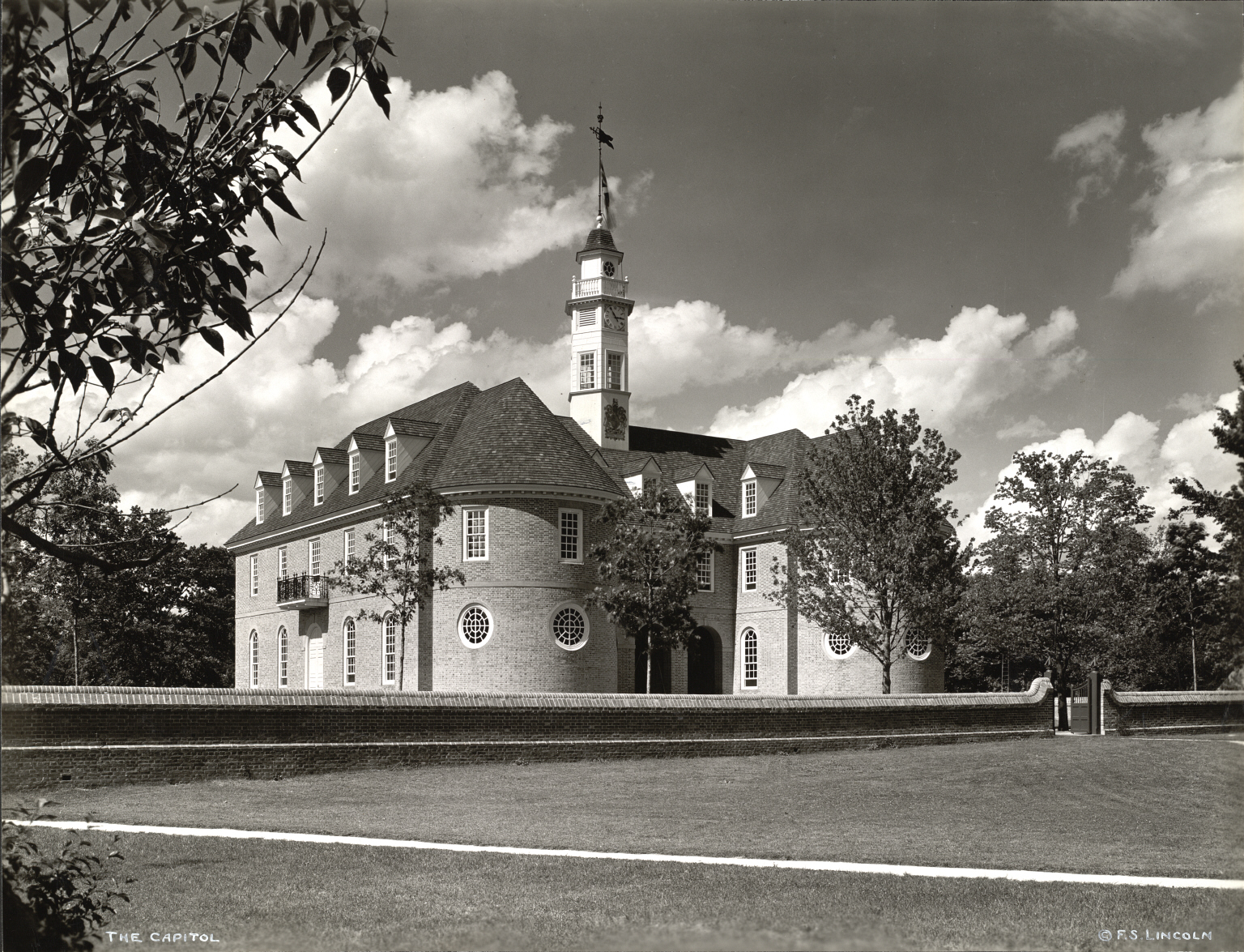 Collection: A. D. White Architectural Photographs, Cornell University Library Accession Number: 15/5/3090.00549 Title: The Capitol, Colonial Williamsburg Photographer: Fay Sturtevant Lincoln (American, 1894-1975) Architect: Henry Cary (c. 1680-1749) Building Date: 1703-1705 Photograph date: ca. 1934-ca. 1950 Location: North and Central America: United States; Virginia, Williamsburg Materials: gelatin silver print Image: 7 3/8 x 9 3/8 in.; 18.7325 x 23.8125 cm Style: American Colonial Provenance: Transfer from the College of Architecture, Art and Planning Persistent URI: There are no known U.S. copyright restrictions on this image. The digital file is owned by the Cornell University Library which is making it freely available with the request that, when possible, the Library be credited as its source.